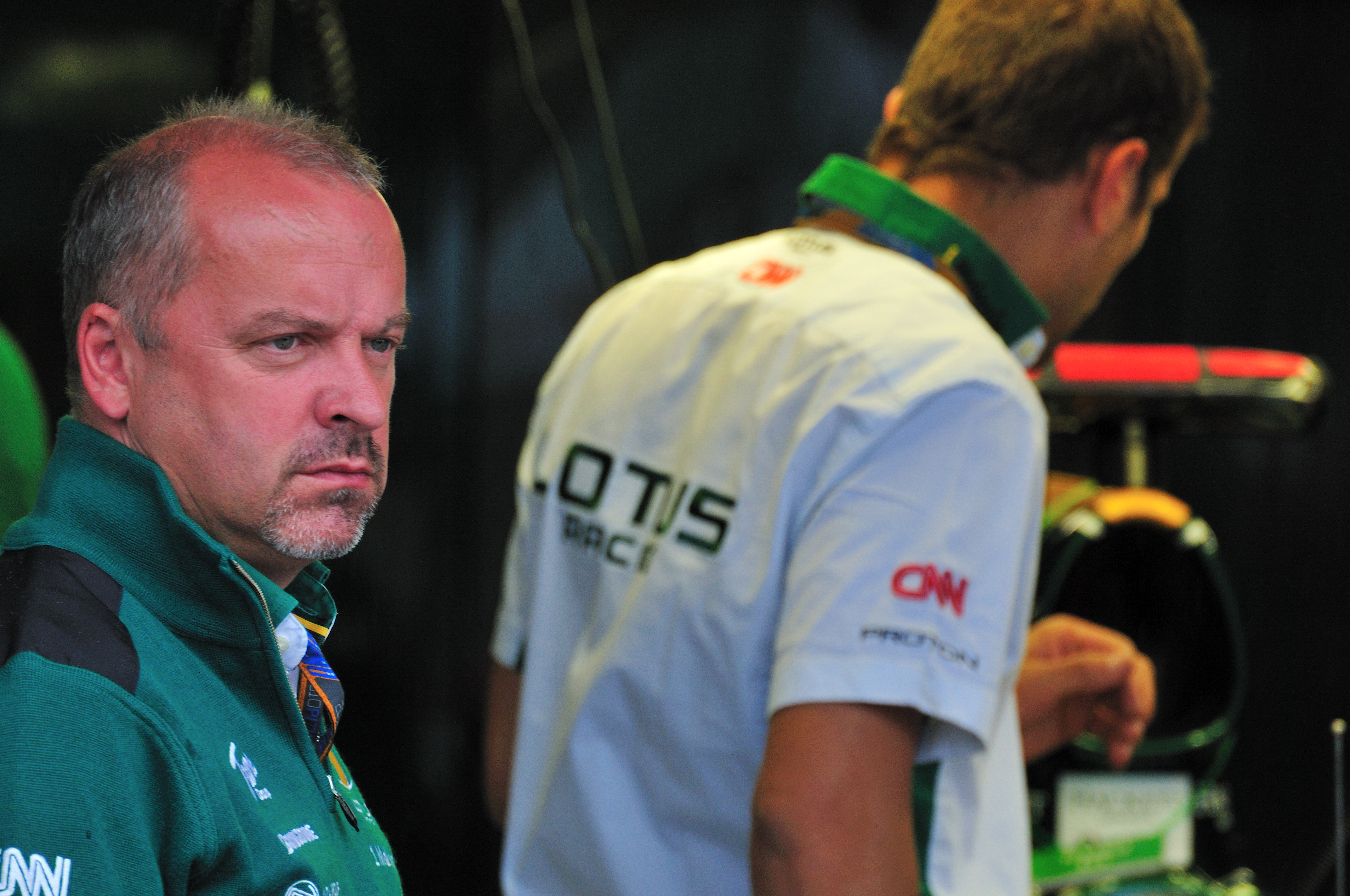 Mike Gascoyne at the 2010 Canadian Grand Prix.